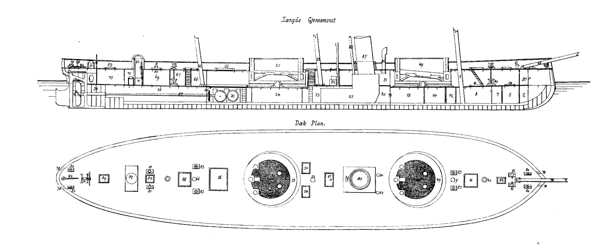 Plan of the Danish ironclad (turret ship) Rolf Krake, launched and delivered in 1863.